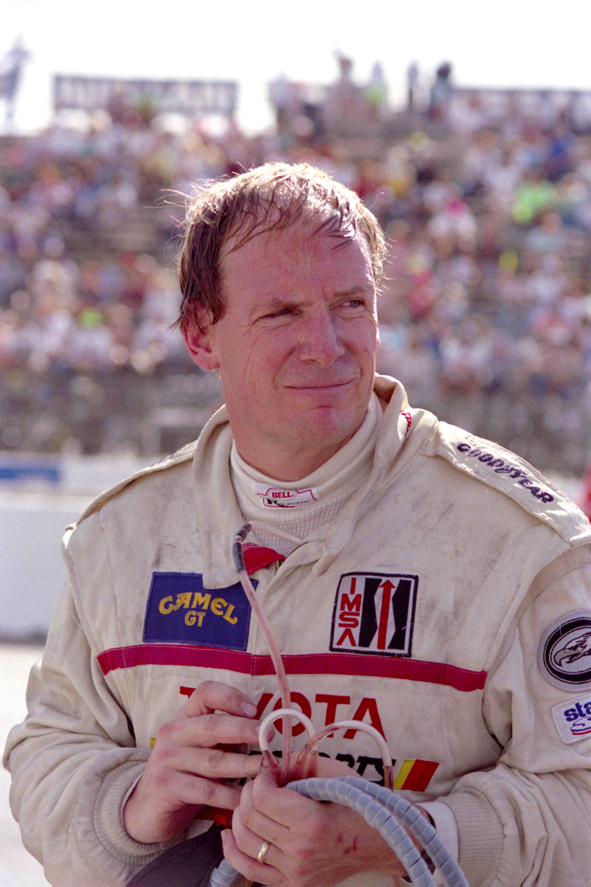 Rocky Moran, Sr. at the IMSA Del Mar Grand Prix - October 1990